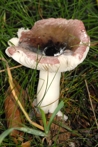 Russula fragilis from Commanster, Belgium. The determination of the species shown in this picture has been verified.